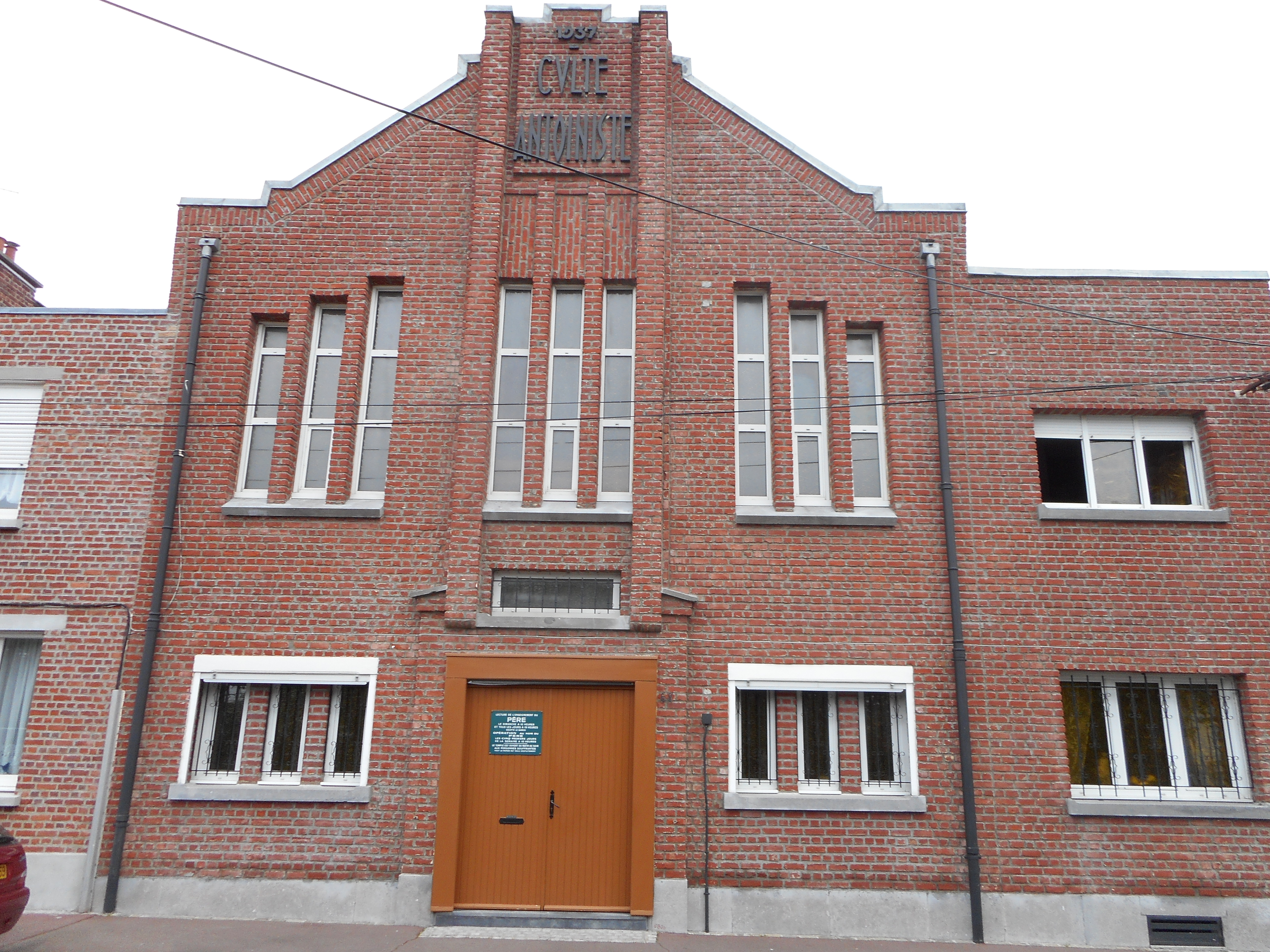 Antoinist temple in Tourcoing